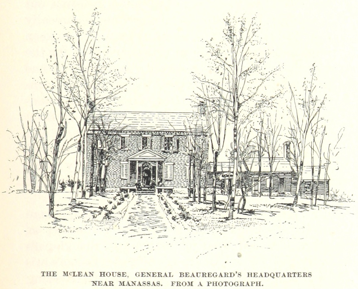 Wilmer McLean's first house near Manassas, Virginia. McLean would move after the First Battle of Bull Run to Appomattox Courthouse, Virginia, where Lee eventually surrendered to Grant.